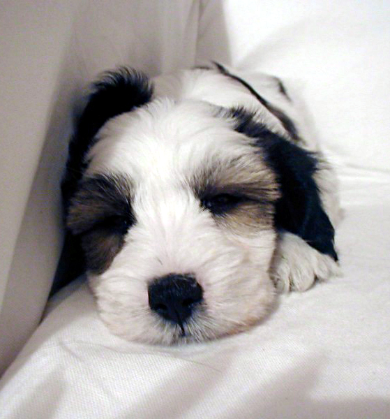 Doki (Puppedo) A Tibetan Terrier.